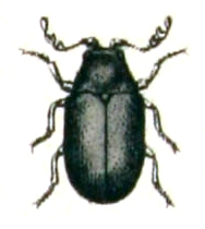 Dorcatoma chrysomelina, from Calwer's Käferbuch, Table 29, Picture 10. Taxonomy was updated to 2008, using mostly the sites Fauna Europaea and BioLib. Please contact Sarefo if the determination is wrong!